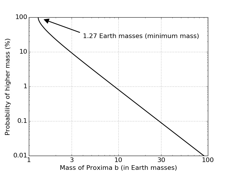 The minimum mass of Proxima Centauri b is 1.27 Earth masses, corresponding to an edge-on orbit, but the orbital inclination of the planet has not been measured. The range of possible inclinations follows a probability distribution (e.g., the median inclination is 60 degrees - not 45!). If the inclination is lower than 90 degrees (edge-on), a higher mass follows. This figure shows the relation between possible masses for the exoplanet, and the probability for the corresponding inclination. Input: binary mass function, stellar mass, and trigonometry to relate inclination to probability.